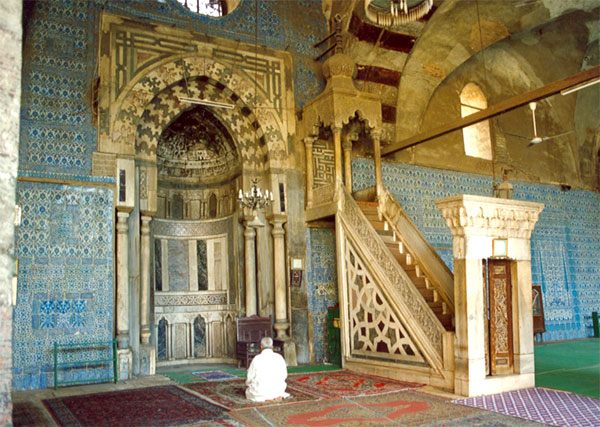 Minbar and mihrab at Aqsunqur Mosque, or Blue Mosque. Cairo. Egypt